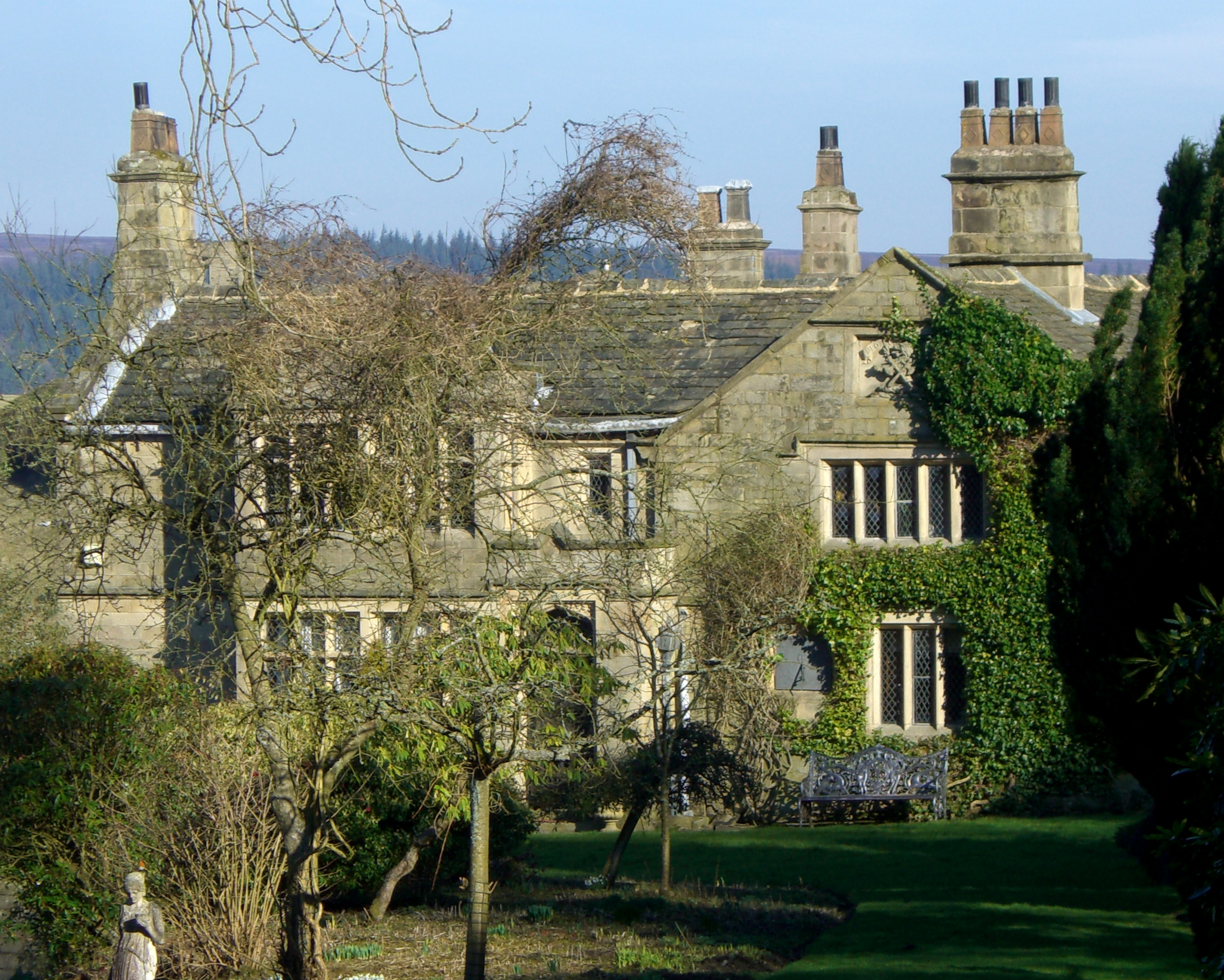 Sugworth Hall in Bradfield Dale in Sheffield, England. This Grade II Listed Building dates from the 16th century with later additions.